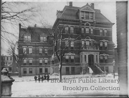 Picture from the Brooklyn Daily Eagle.